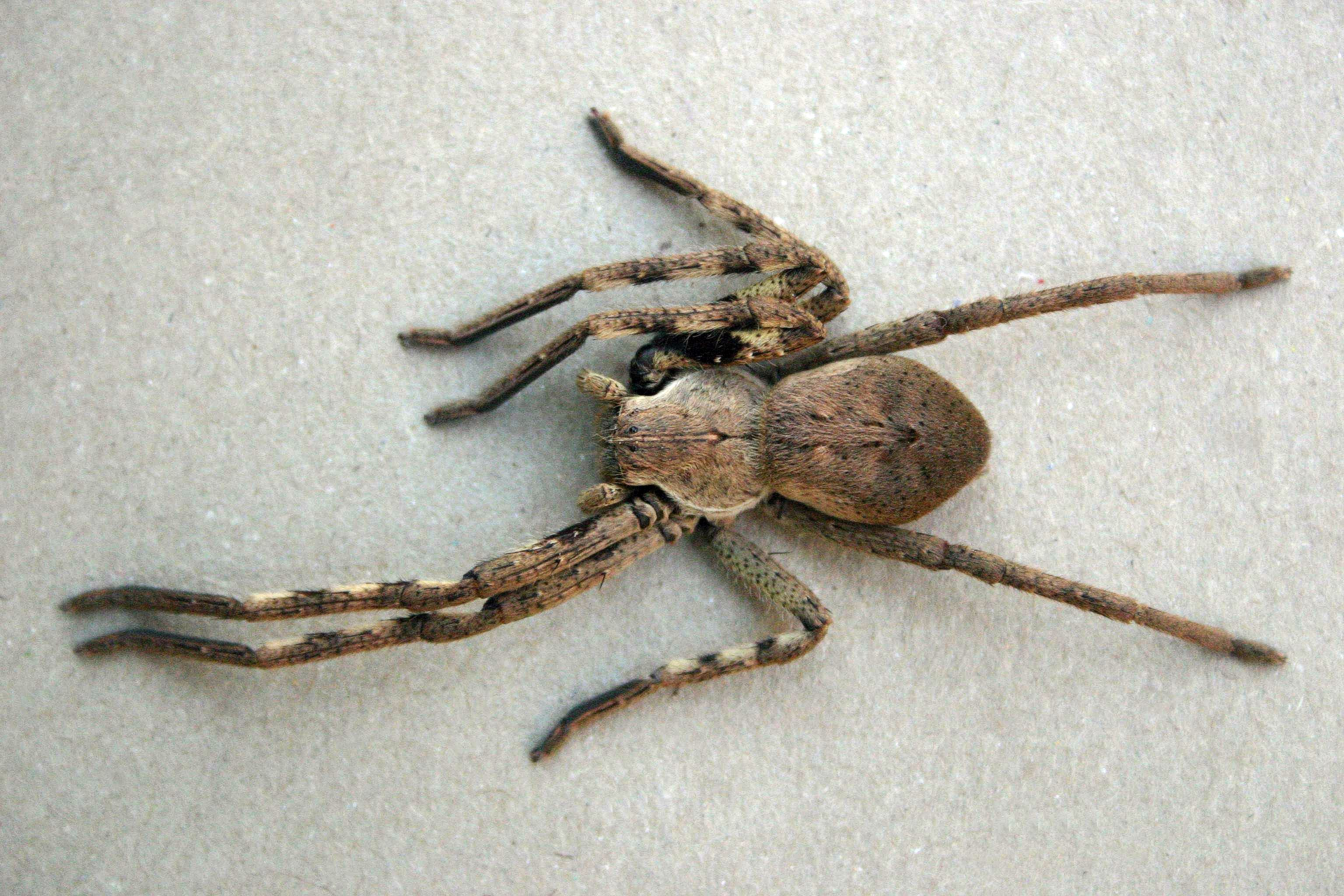 Female Palystes natalius - Johannesburg, South Africa